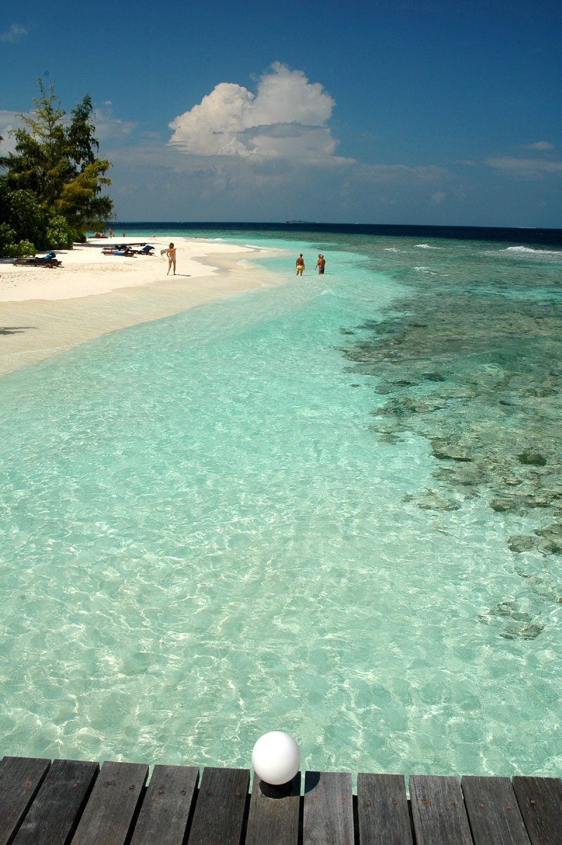 The beach and part of the reef of Bathala island, taken from a jetty.